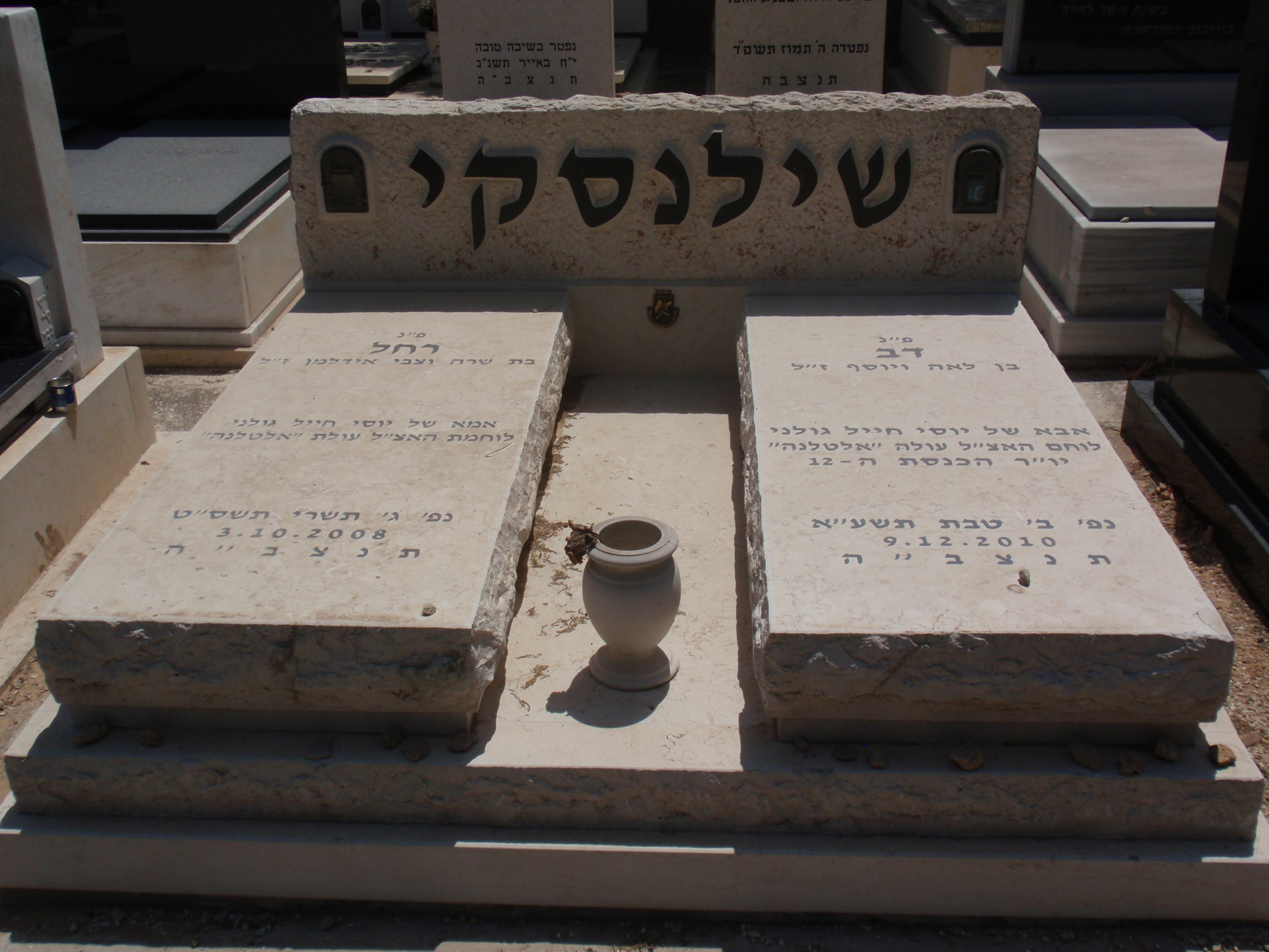 Tombstone of Knesset Speaker Dov Shilansky at Kiryat Shaul cemetery, Tel Aviv, Israel